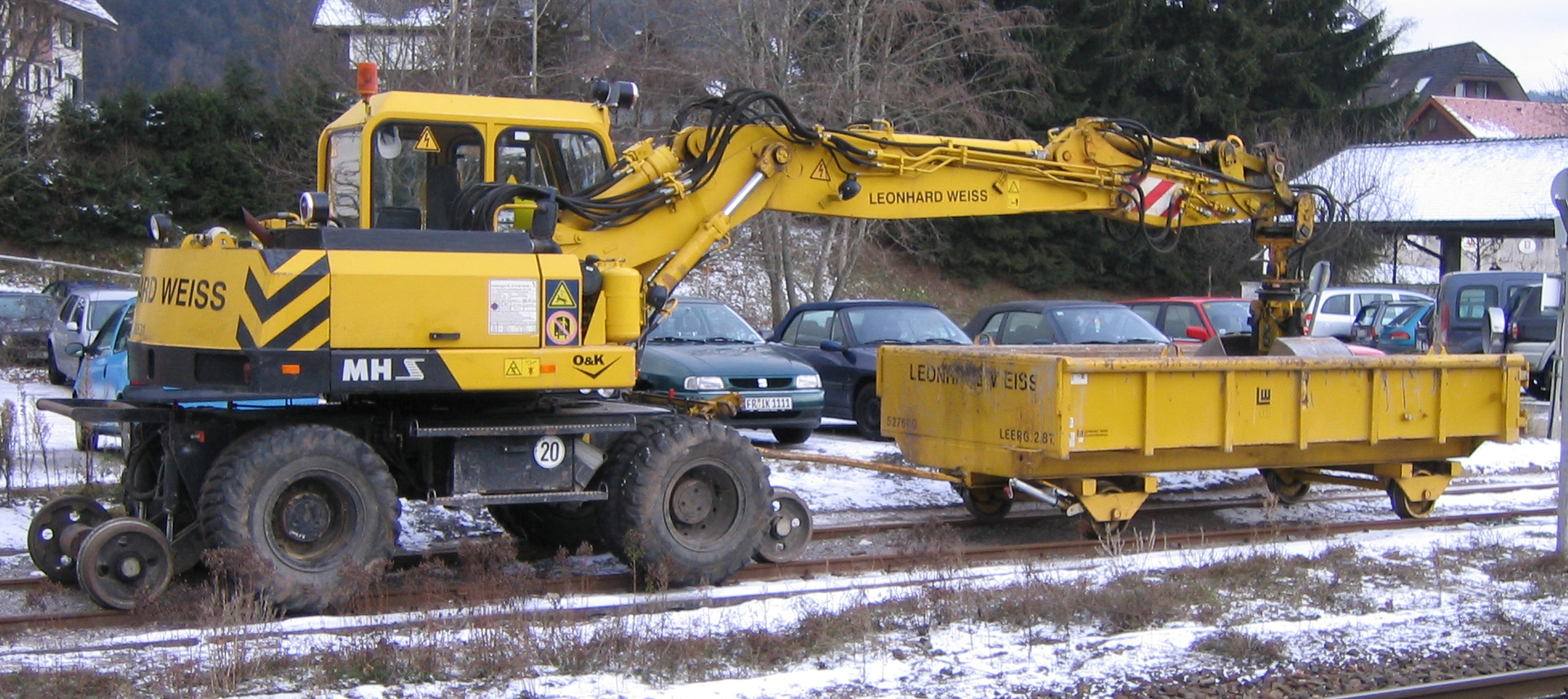 Road-rail excavator MH S by Orenstein & Koppel working on a railway, photographed in Hinterzarten, Germany